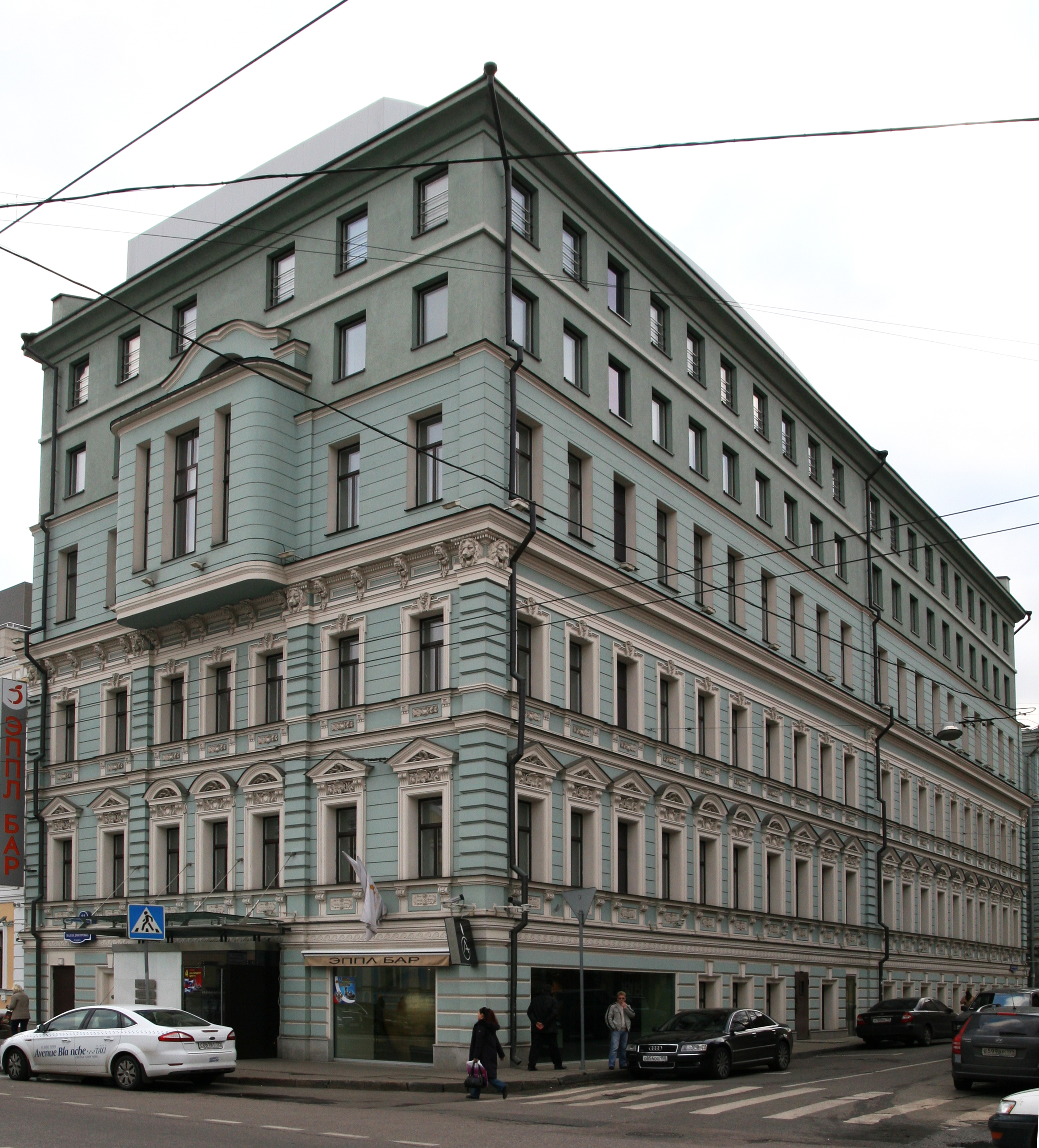 Moscow, Malaya Dmitrovka Street 11, Golden Apple Hotel